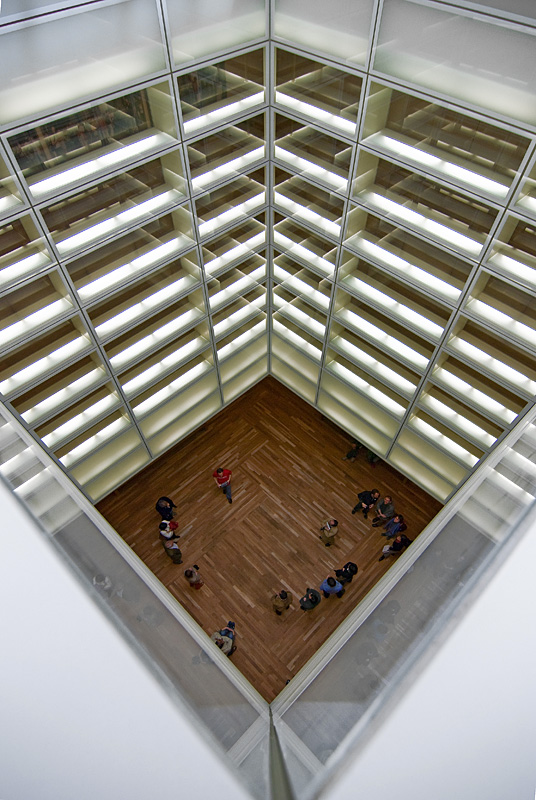 Skylight at the extension of the Prado Museum (Madrid, Spain).